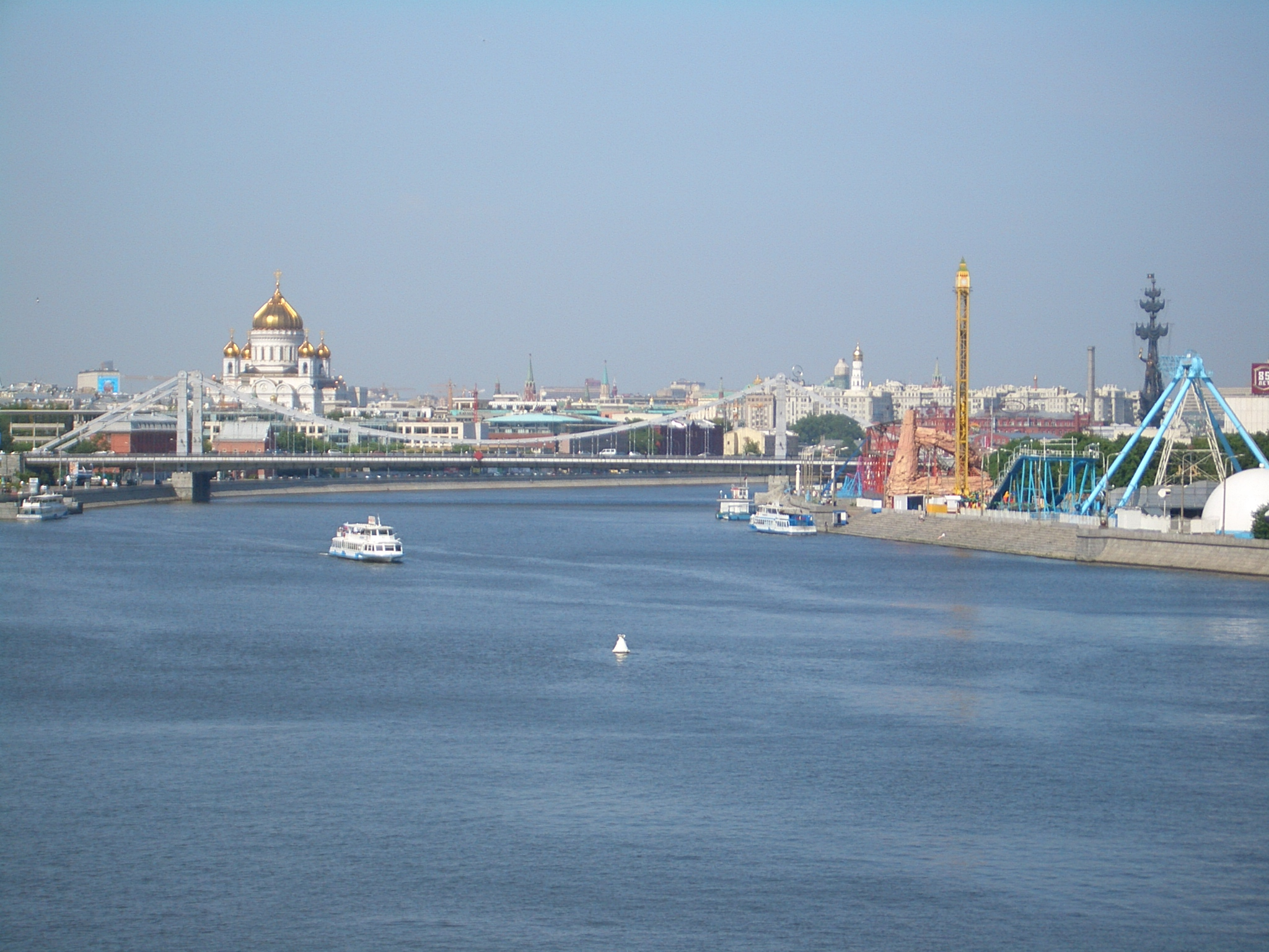 Moscow River near Gorky Park, with Crimea Bridge and Cathedral of Christ the Saviour in the background.